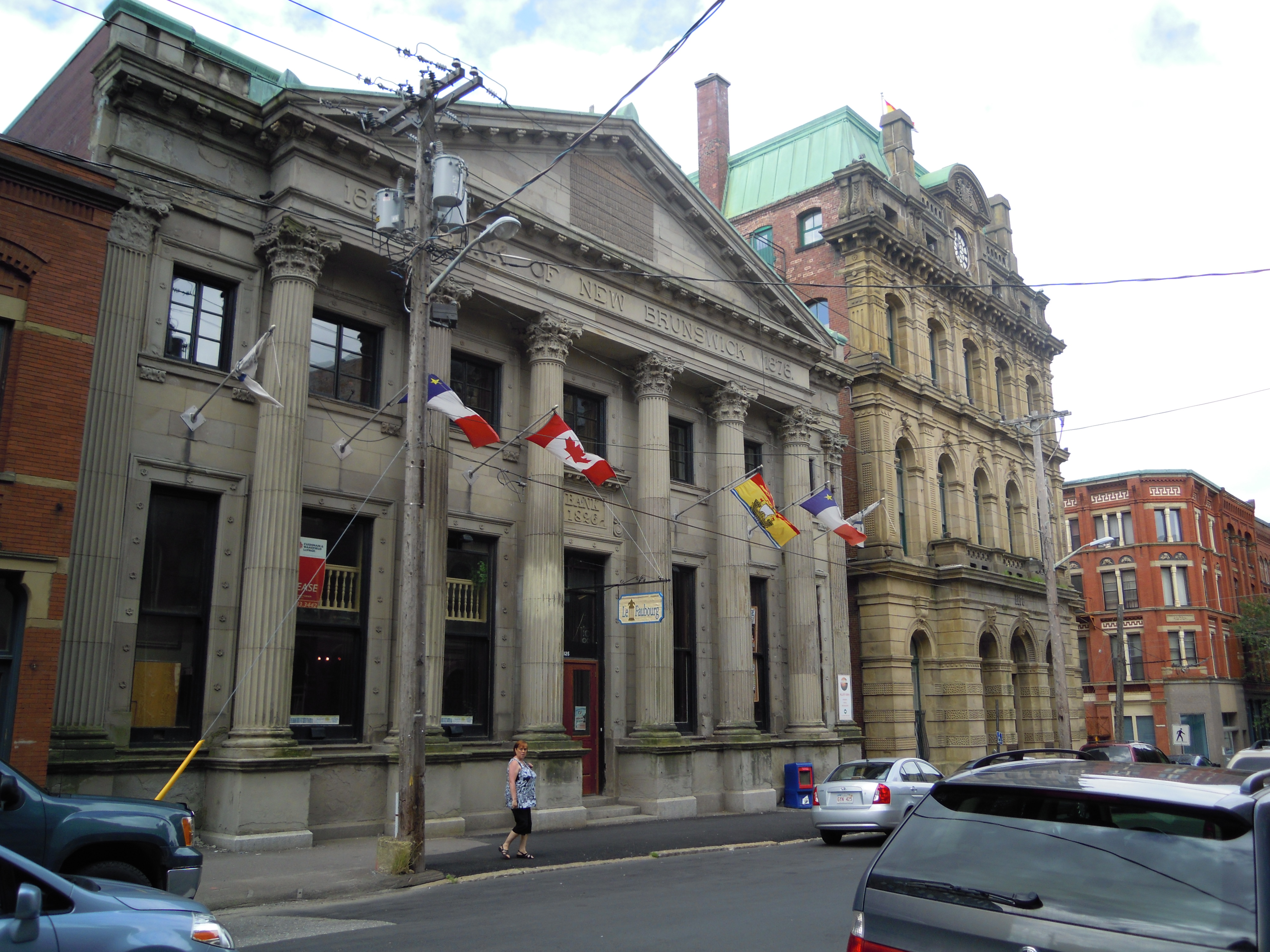 Bank of New Brunswick Builing, Saint John, New Brunswick, Canada.